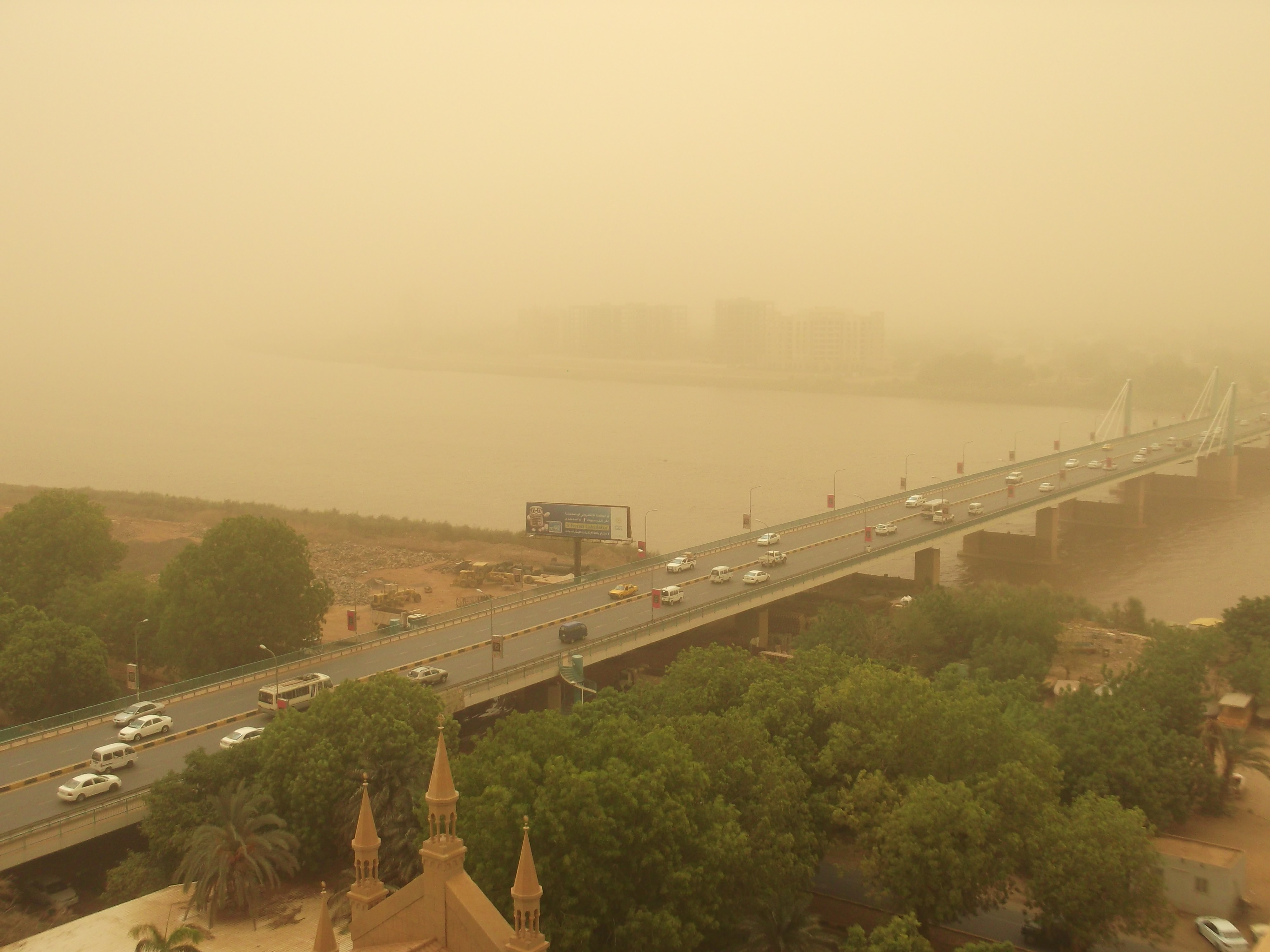 Sandstorm in Khartoum 2012